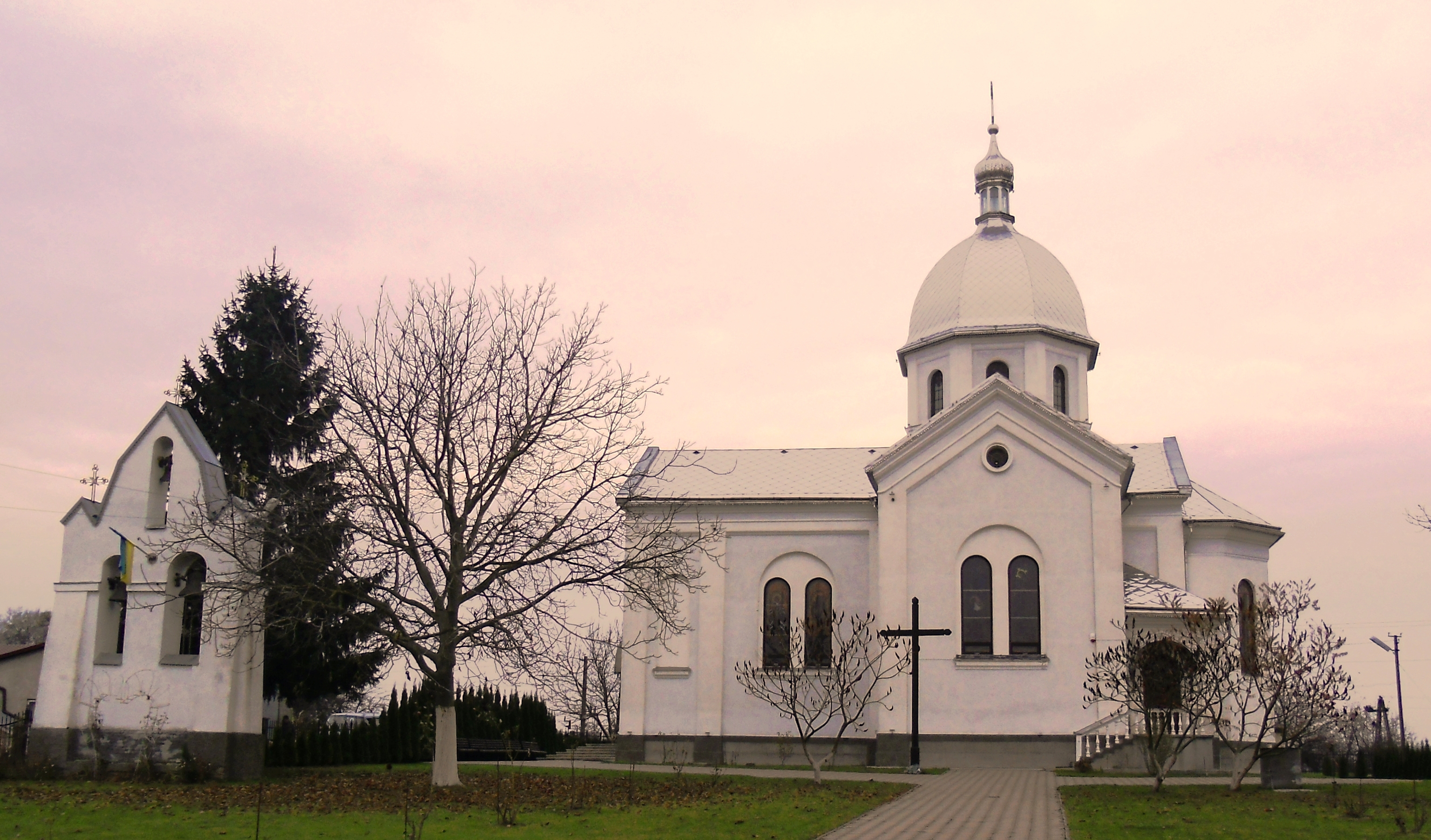 Church Cathedral of the Most Holy Theotokos (UGCC) in the village Malekhiv.